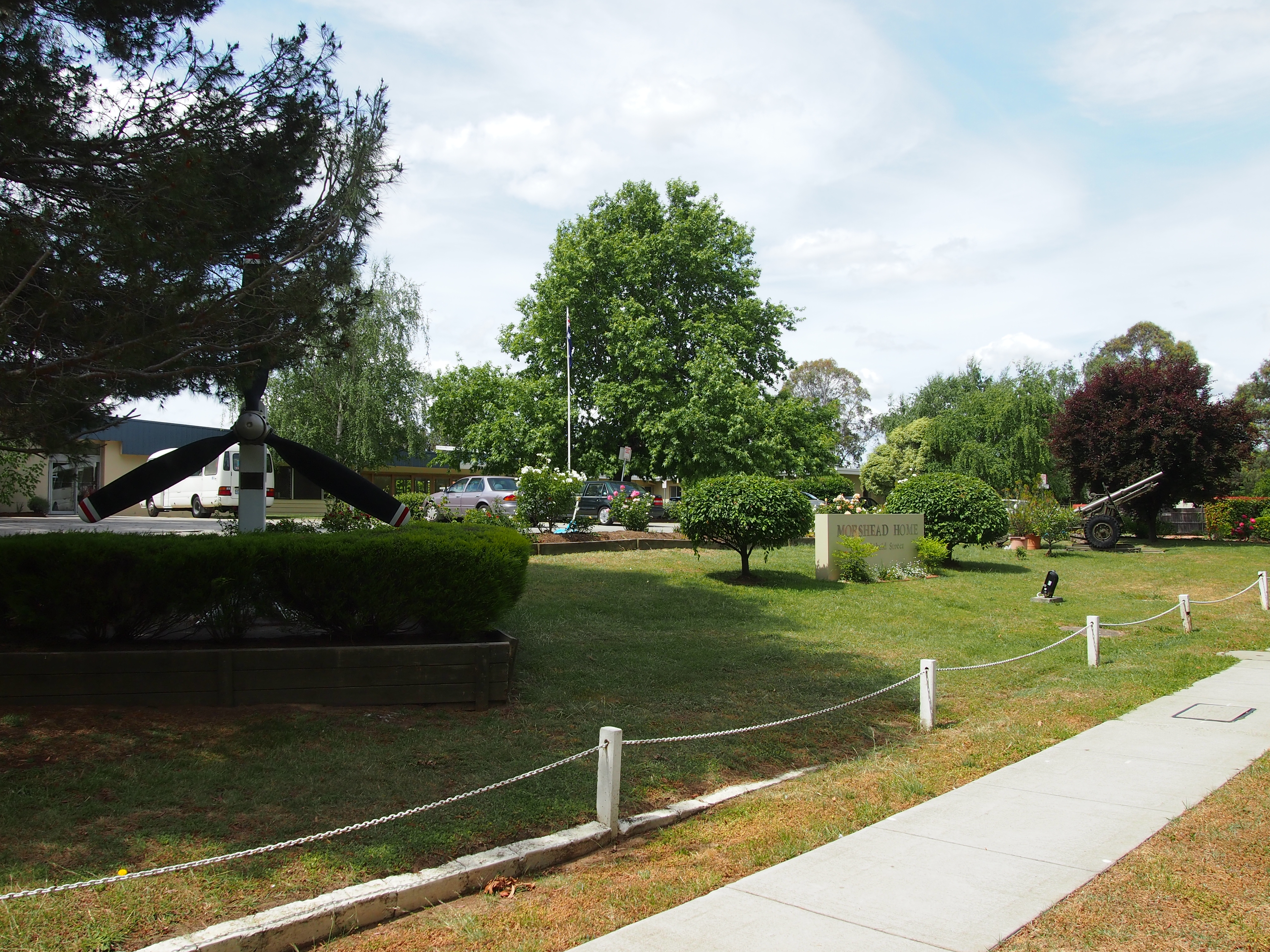 Moreshead Home in the Canberra suburb of Lyneham